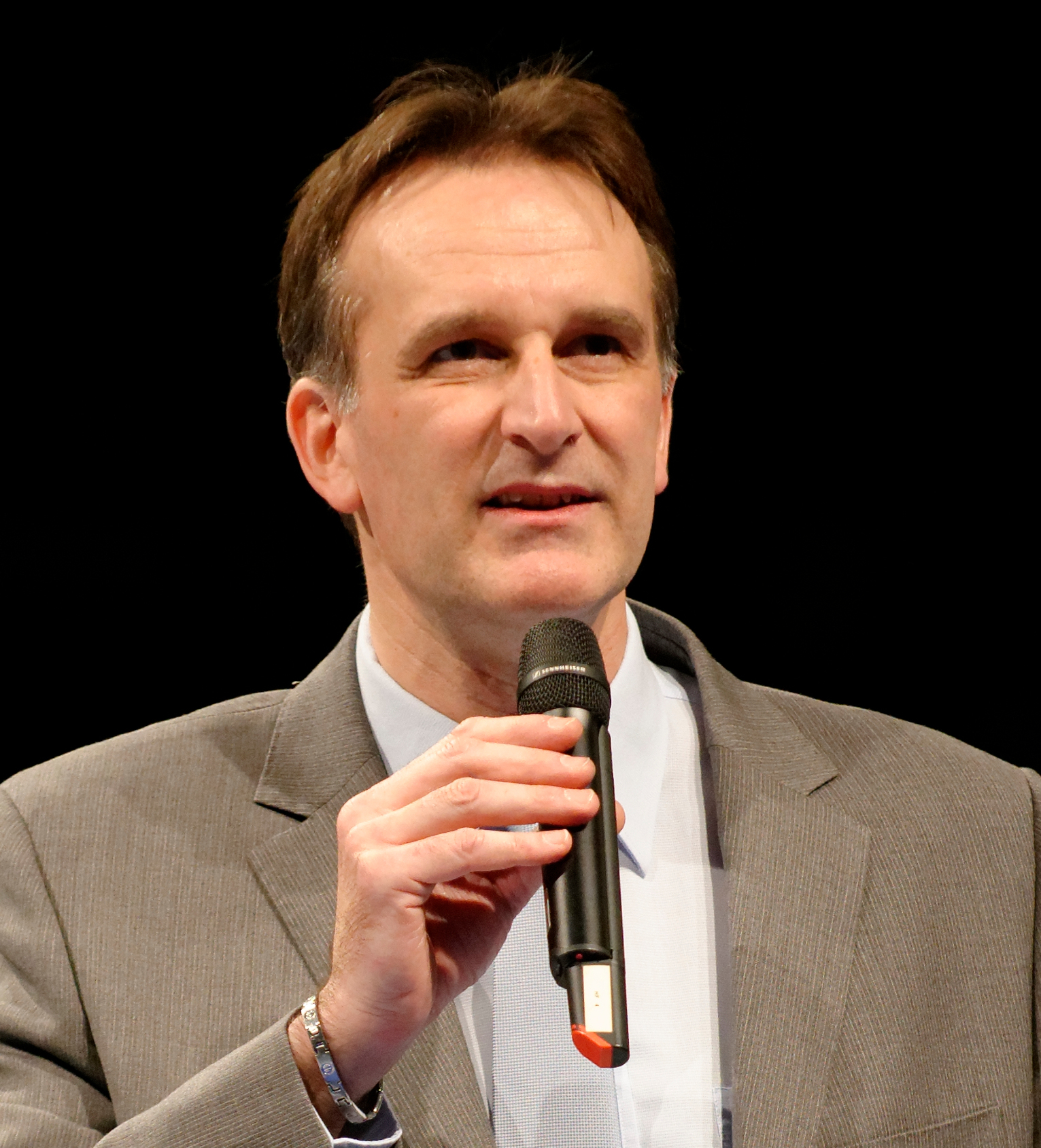 Frédéric Delpla opens the Masters à l'épée 2013.